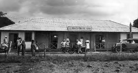 Old Postcard of Italian Somalia, dated 1938, showing the Hotel Albergo Villaggio Duca degli Abruzzi, near the actual village of Jowhar. The postcard was taken from my grandfather album. I have done the digital photo of the postcard, cut it and added data with my software. Soomaaliga: Waa sawir qadiim ah oow qaday odaay Talyaani ah sanadkii 1938 waana halka aay maanta ku taalo Jowhar sawirkaan waxa soo ban dhigaay wiil oow awoow u yahay sawirqadahii barigaas jogaay Jowhar.